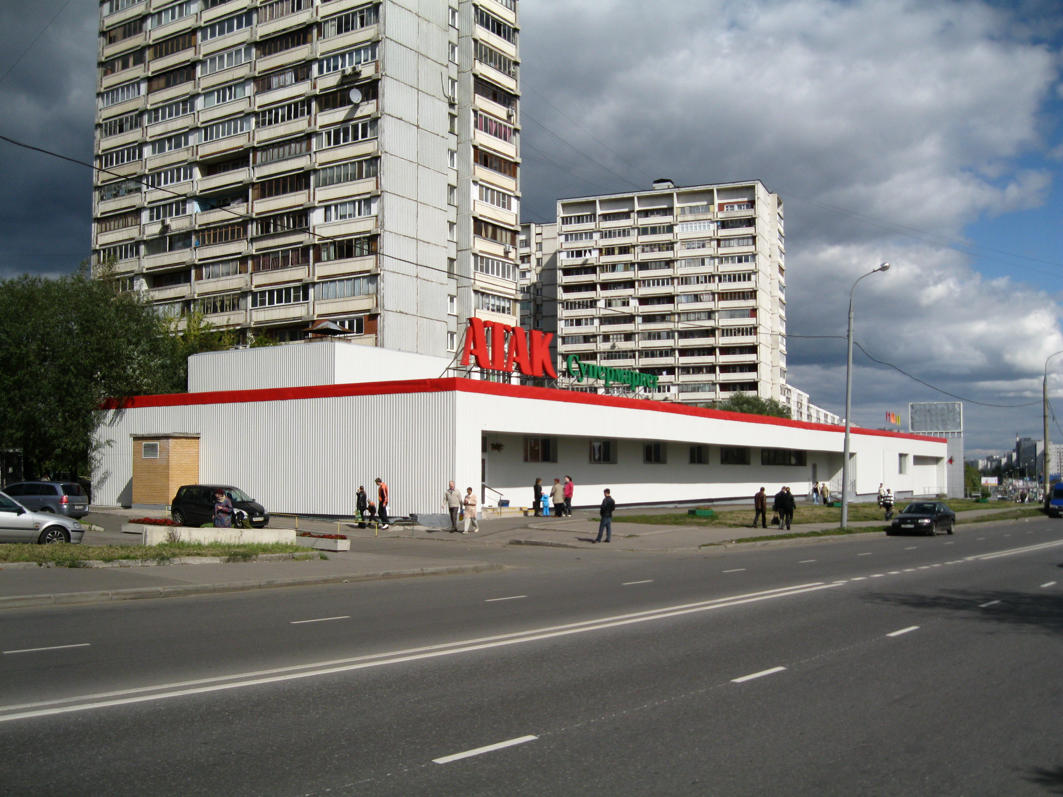 Atac shop on Bibirevskaya street in Moscow, Russia